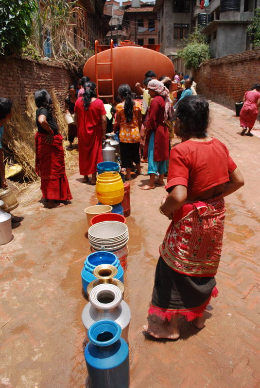 Queuing for water in Bhaktapur.